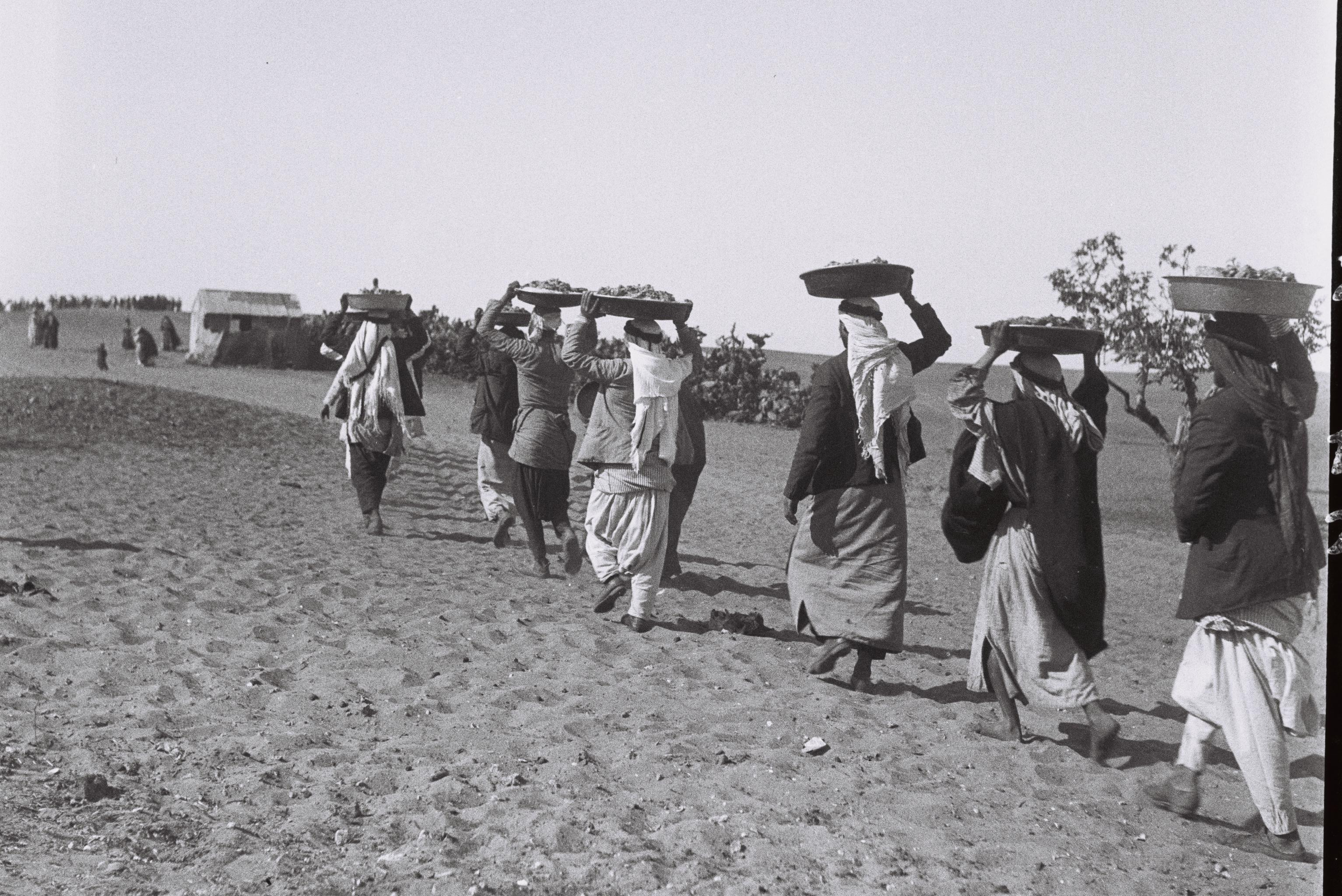 Servants take food to the guests attending an Arab farmer's wedding in the Negev. מלצרים מגישים אוכל לאורחים בחתונה של חקלאי ערבי בנגב Photo: Zoltan Kluger (1896–1977) Alternative names Qlwger, Zwlṭan; Zolṭan Ḳluger; Kluger, Z.; W. von Szigethy; W. Von SzighethyDescriptionHungarian-Israeli photographerDate of birth/death 8 February 1896 16 May 1977Location of birth/death Kecskemét ManhattanAuthority control : Q7035699 VIAF: 19504001 ISNI: 0000 0000 6686 1613 ULAN: 500483392 LCCN: no2008144265 Open Library: OL6614008A WorldCat creator QS:P170,Q7035699 , 04/01/1934